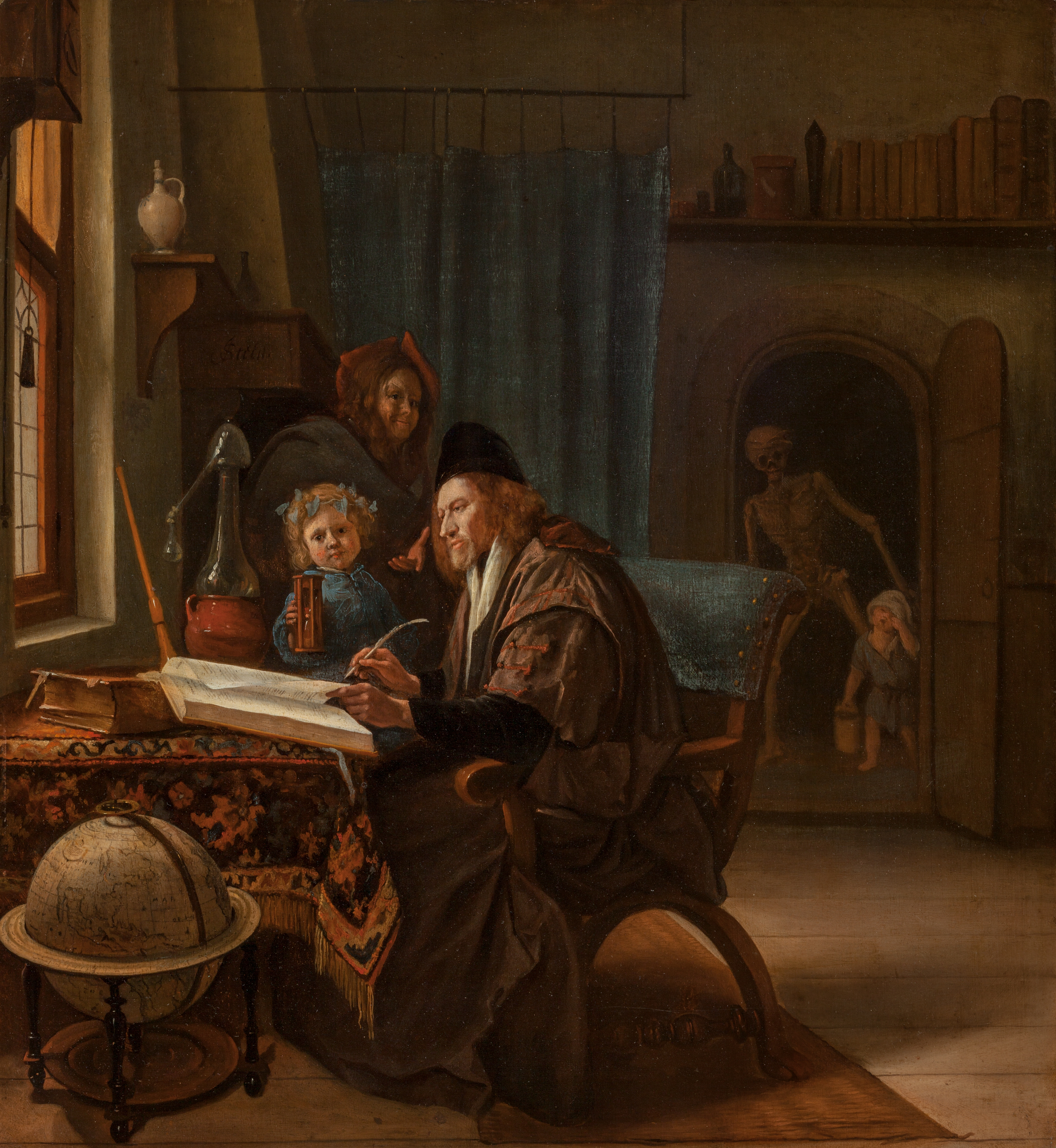 Scholar at his desk, Jan Steen, c. 1668-1669, oil on oak, 46.5 by 42.5 cm, National Gallery in Prague